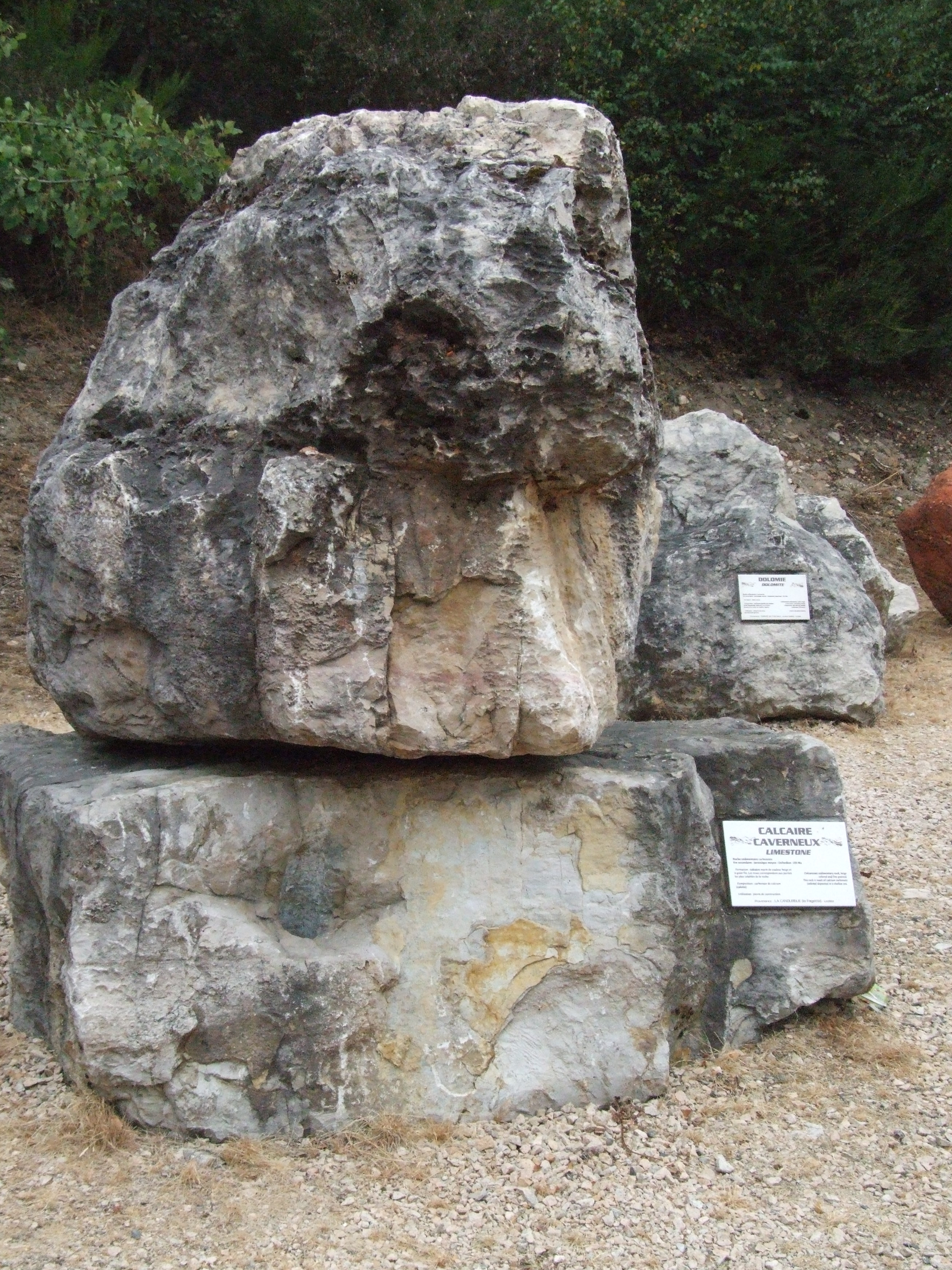 The Géoscope at the motorway service station, La Lozère, displays a collection of rocks found in Lozère. Each has a description. Limestone (beige) Oxfordian Provenance:La Canourgue, Lozère